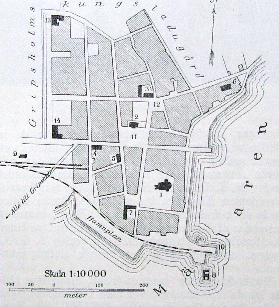 Picture of map of Mariefred in Södermanland, Sweden